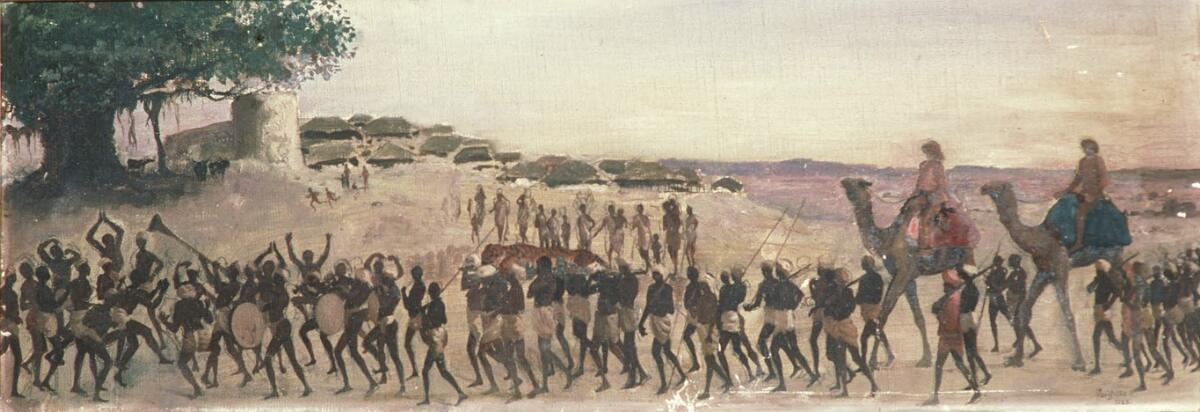 A painting from the Framed Works of Art collection at the National Library of wales.